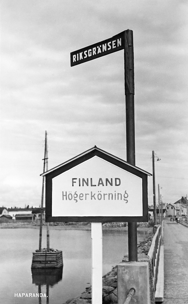 The Swedish border to Finland in Haparanda, with a roadsign about right-hand driving in Finland. Finnish town Tornio on the other side. Riksgränsen mot Finland i Haparanda, med en vägskylt om högerkörning i Finland. Finska staden Torneå på andra sidan. Parish (socken): Haparanda Province (landskap): Norrbotten Municipality (kommun): Haparanda County (län): Norrbotten Photograph by: Unknown. Almquist & Cöster Date: 1958-1967 Format: Cliché, glass plate with text Persistent URL: Read more about the photo database (in english)